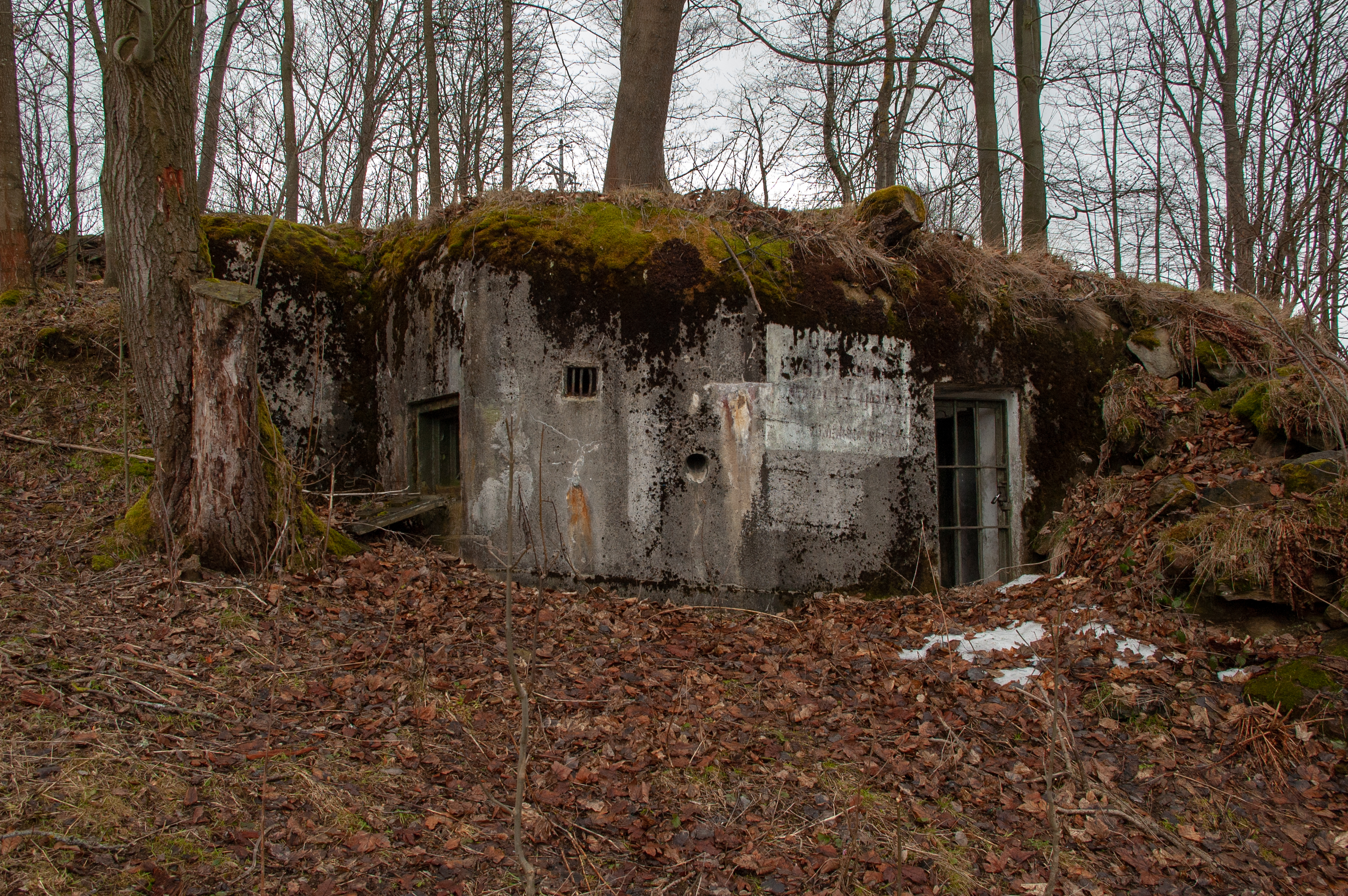 This image was created as a part of Editaton Prachatice (Czech).